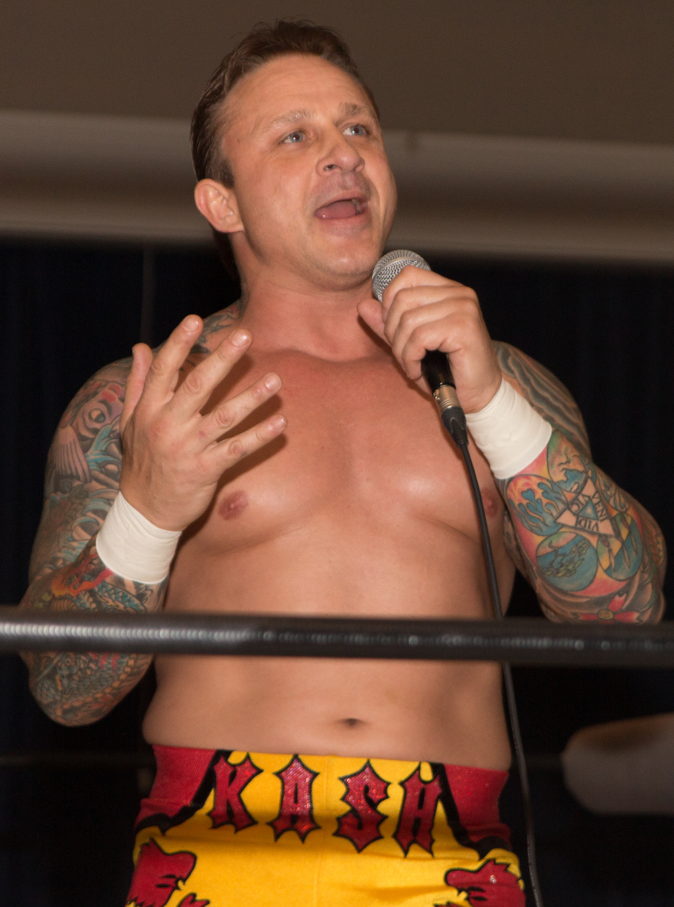 An image of professional wrestler Kid Kash. Other information This is a cropped version of a free use file from the Wikimedia Commons.